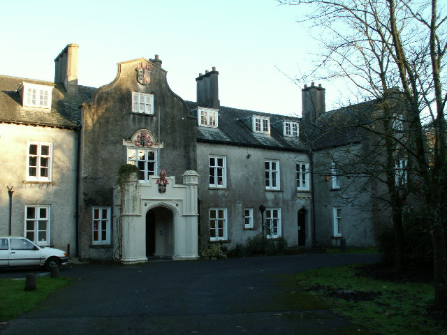 Carmarthen Museum, Abergwili The main Carmarthen Museum, in Abergwili, housed in the former palace of the Bishops of St Davids (until 1974).